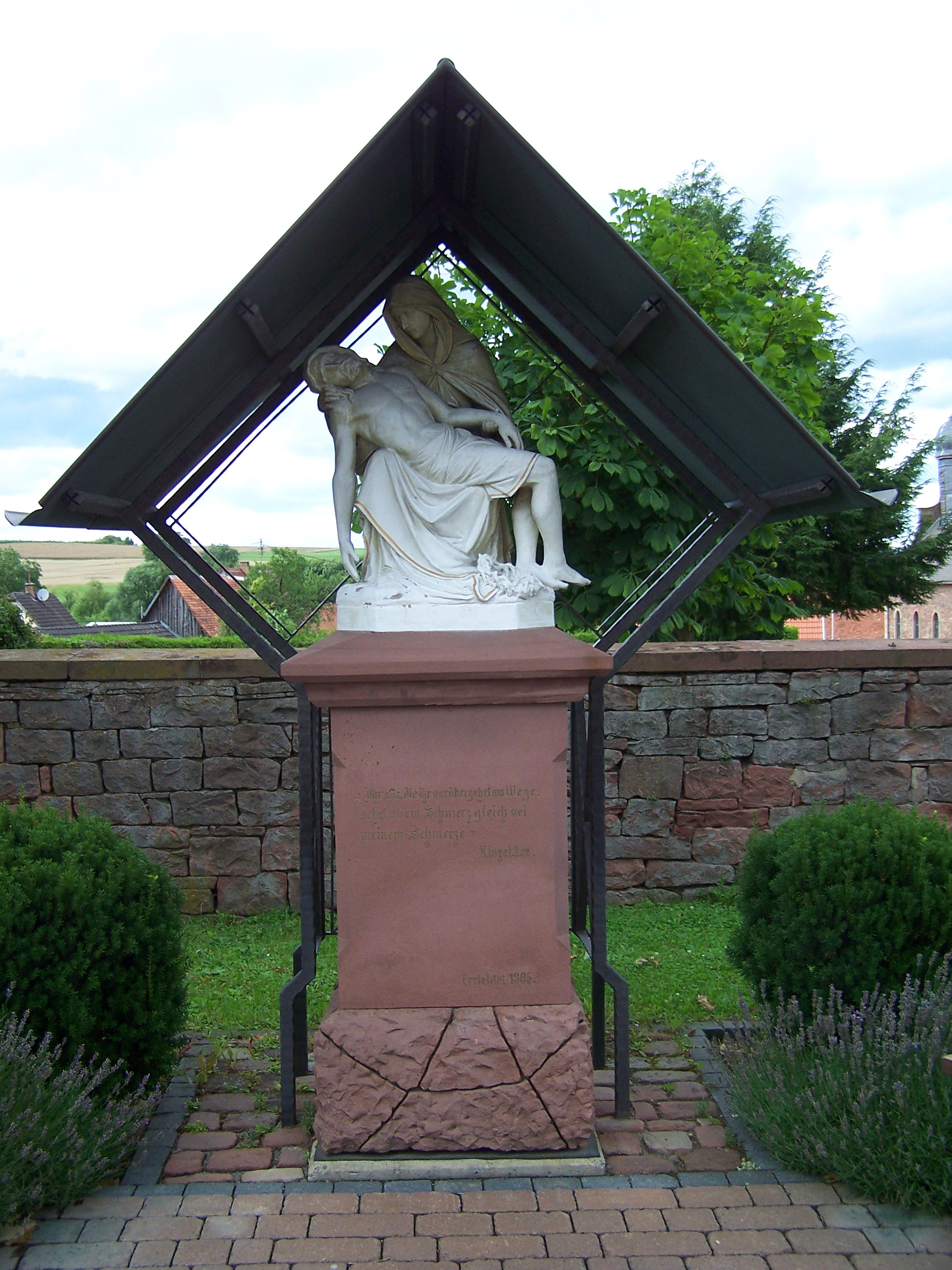 Wayside shrine at the southern entrance of the cemetery of the Catholic church St. Johannes der Täufer und St. Johannes der Evangelist in Mönchberg, district Schmachtenberg, July 2012